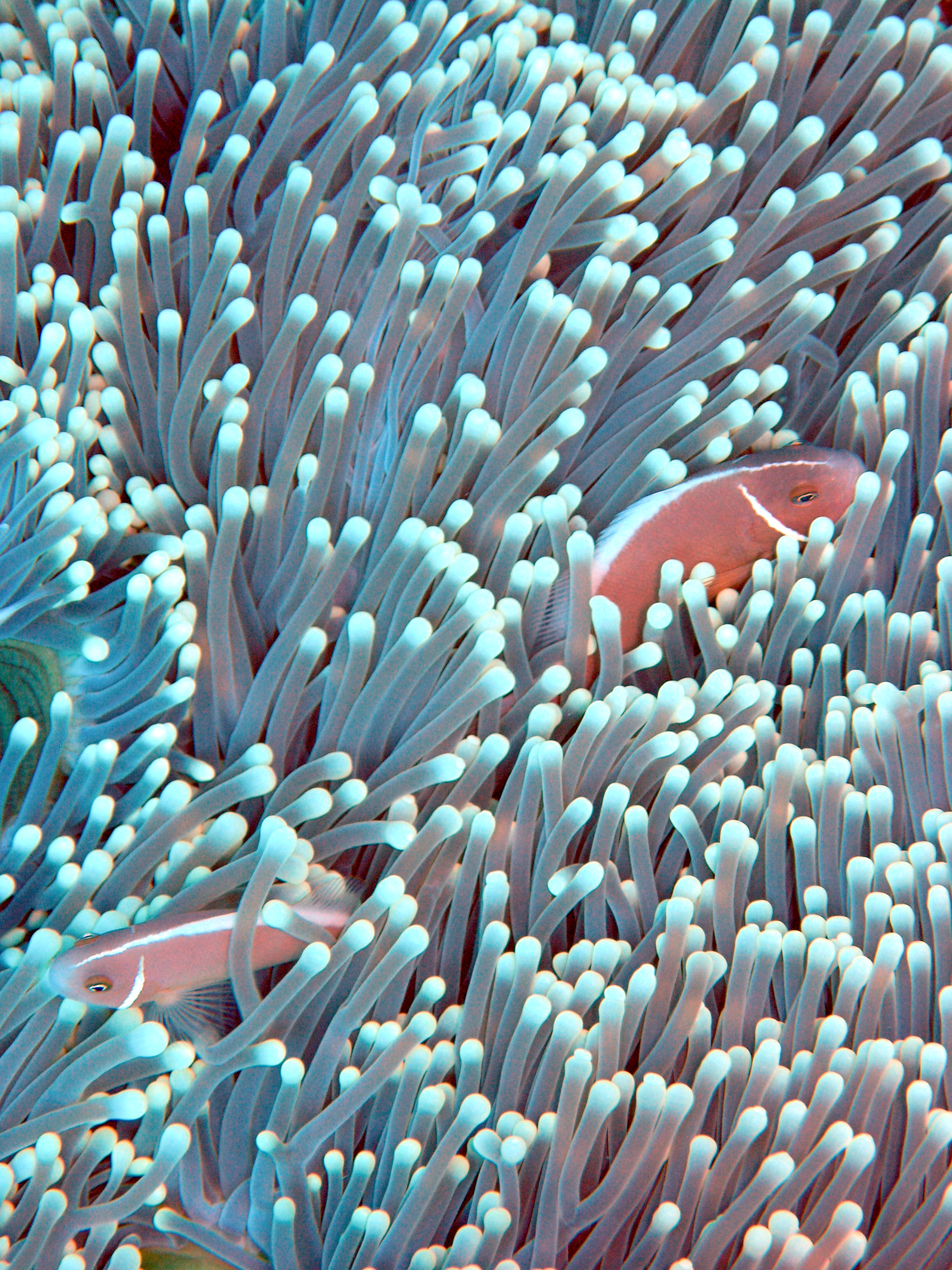 scuba diving near Swallow Reef (Pulau Layang-Layang) in Spratly Islands, South China Sea